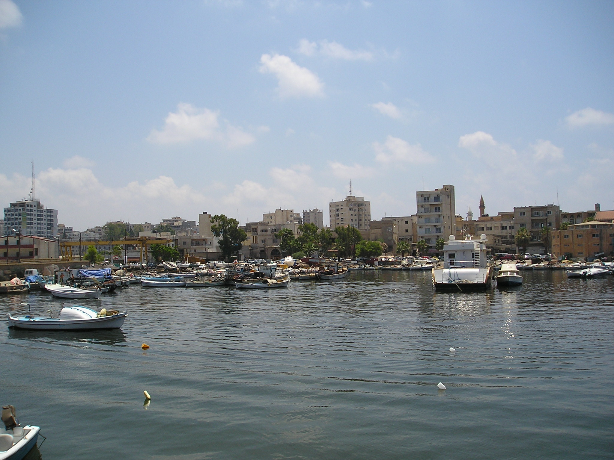 Tyre, Lebanon - fishing harbour